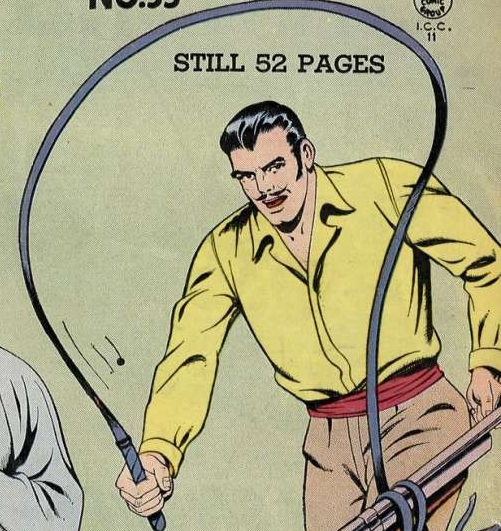 Zorro in cover art from Hit Comics #55, November, 1948 art by